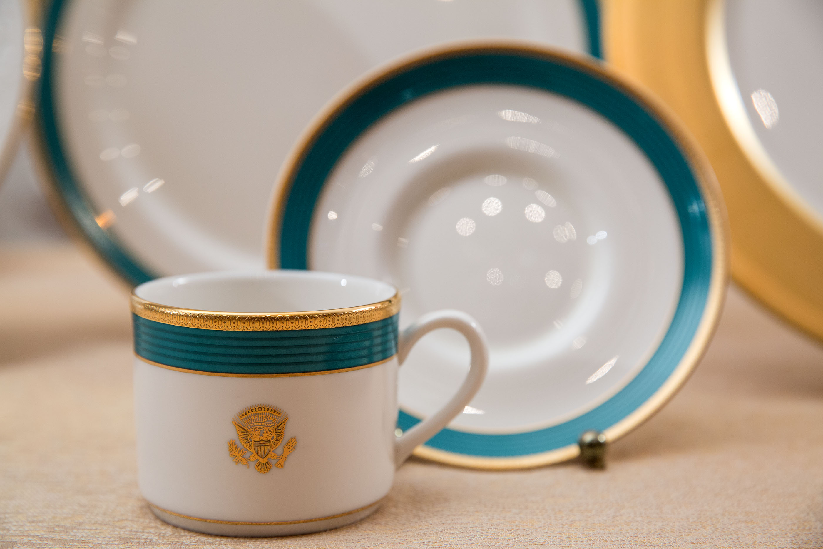 Teacup and teacup saucer which form part of the new White House china service on April 27, 2015, on display in the China Room of the White House in Washington, D.C., in the United States. Each setting of the new china contains 11 pieces, and there are 320 settings. Most of the pieces have an edge of textured gold, a fluted band of color named "Kailua blue" (inspired by the color of the sea off President Obama's home state of Hawaii), and a narrow inner band of gold. Pickard China of Illinois manufactured the porcelain. The teacup is slightly different in that the edge is untextured gilt gold.